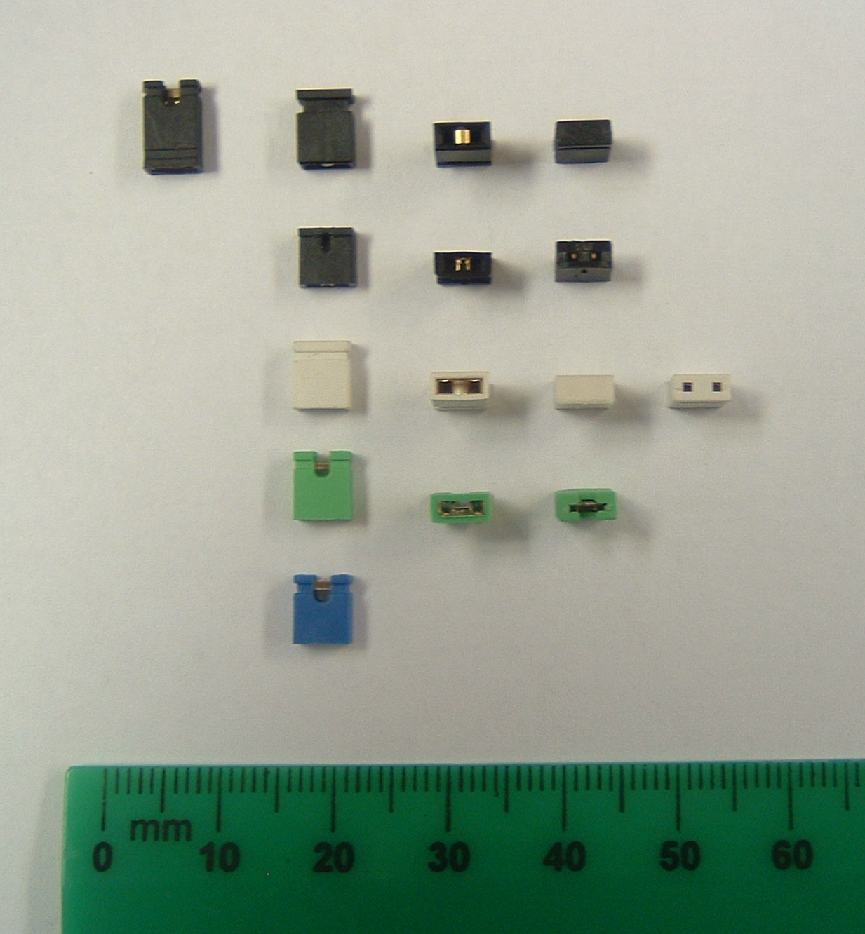 Jumper shunts used in electronics. Column 1 is a long one; row 2 has short ones that are hard to use; column 2 is the side view; column 3 the bottom; column 4 the top; column 5 has an open version like rows 2, 4, and 5. Ruler at the bottom for scale.